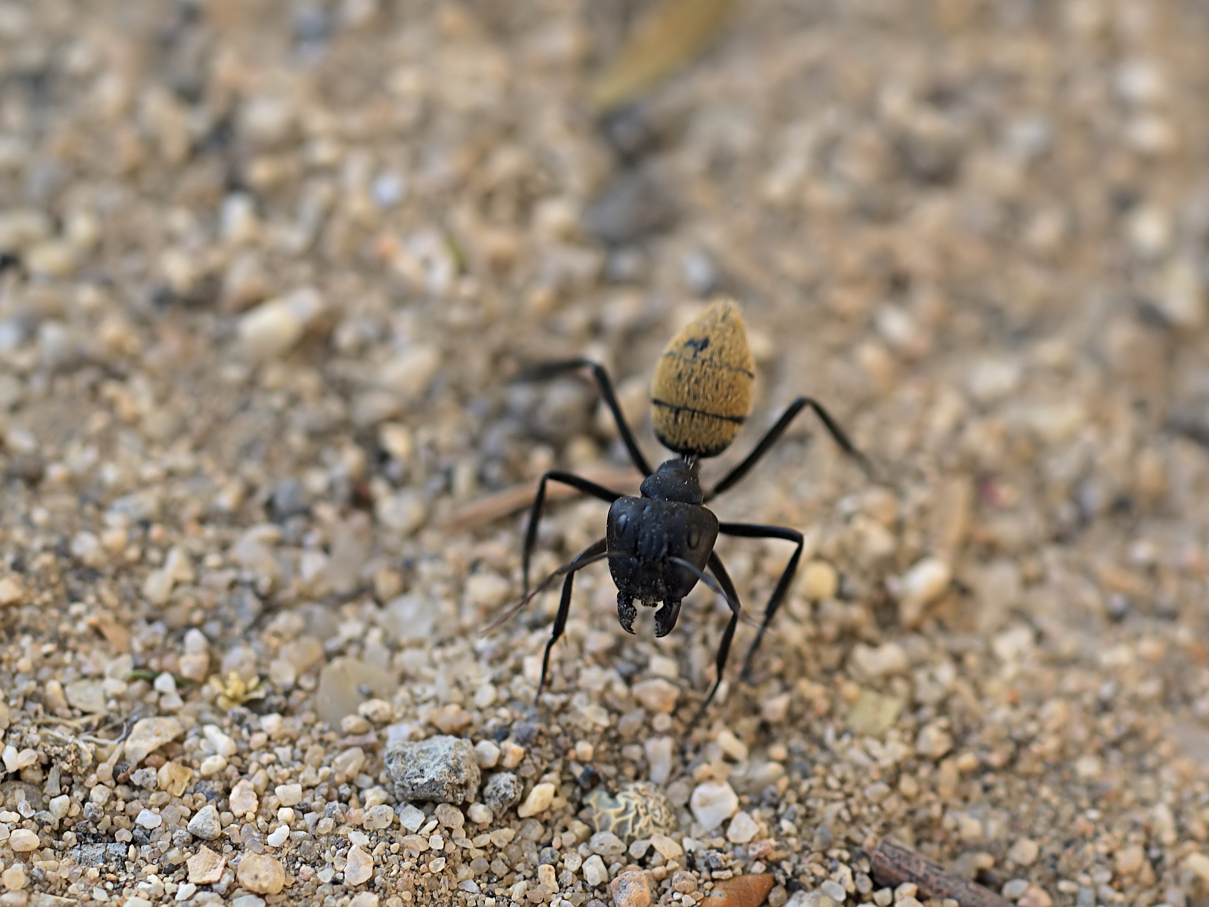 Bal-byter ant, at Uis, Namibia.